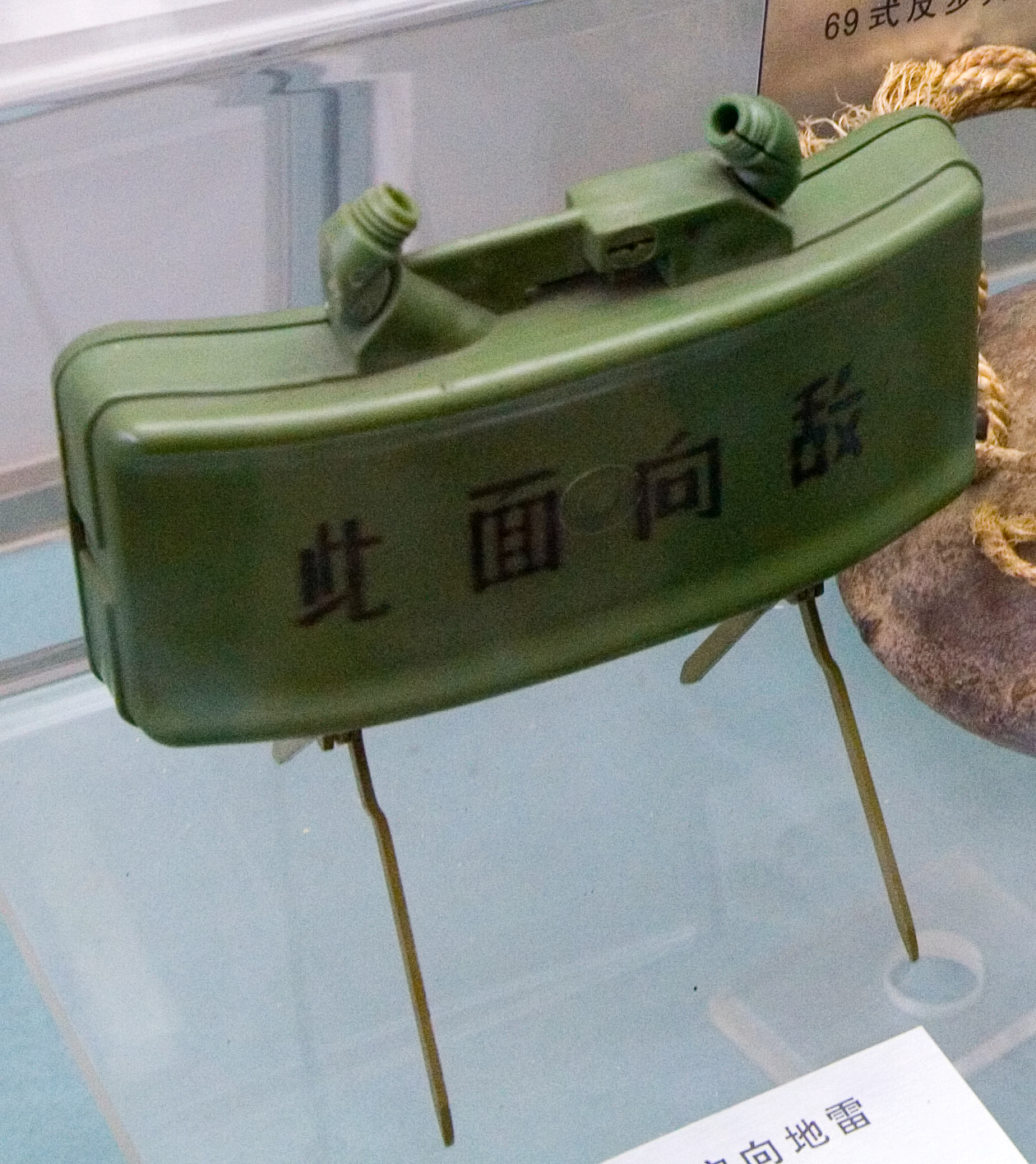 A Type 66 mine. Basically a Chinese claymore mine. Taken at the Beijing Military Museum. The characters 此面向敌 read： "This side faces enemy".